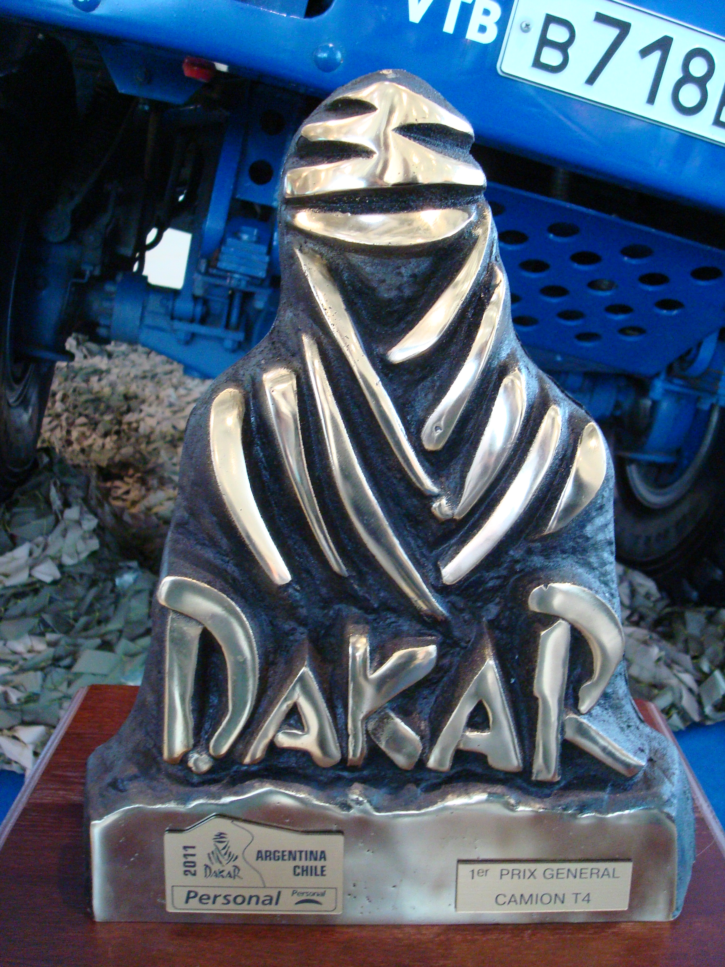 Rally Dakar 2011 prize in Truck class T4